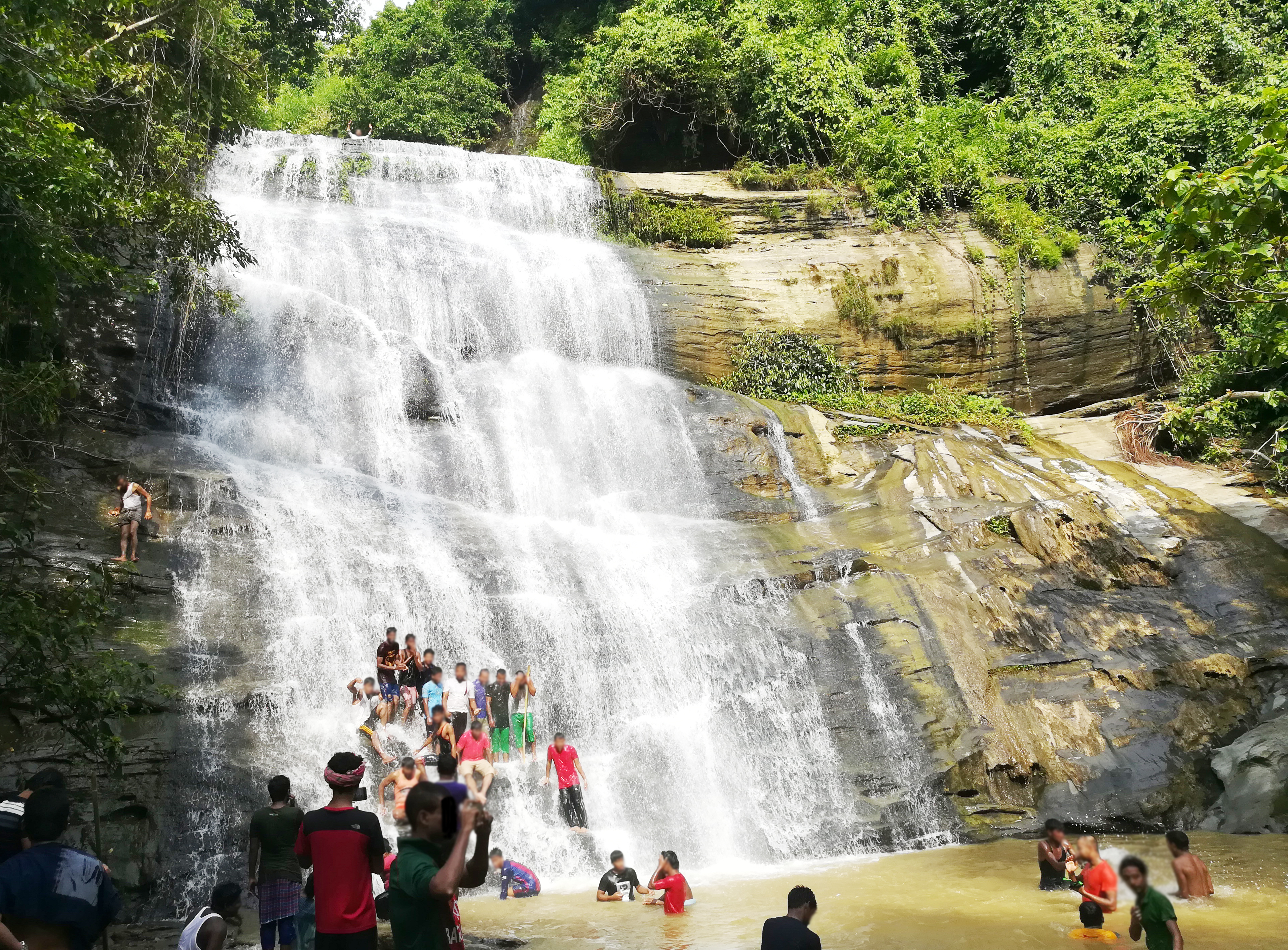 Khaiyachora Waterfalls